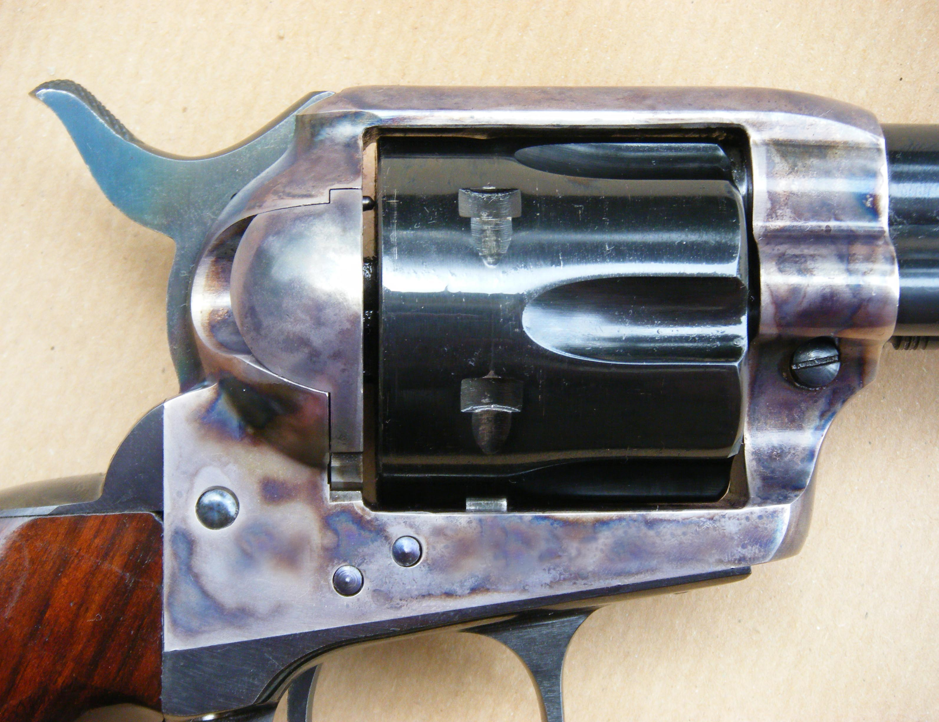 Cylinder of Colt SAA (A. Uberti made)